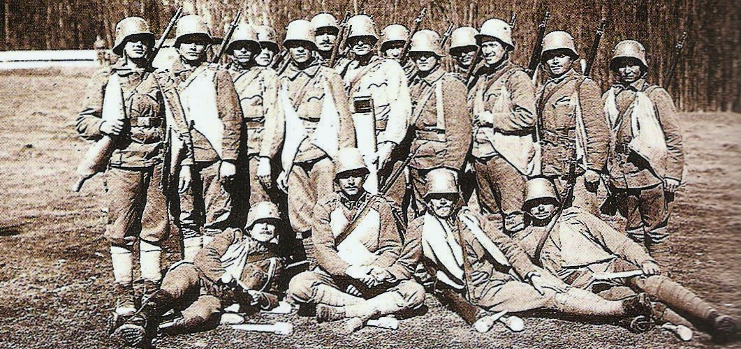 German stosstruppen